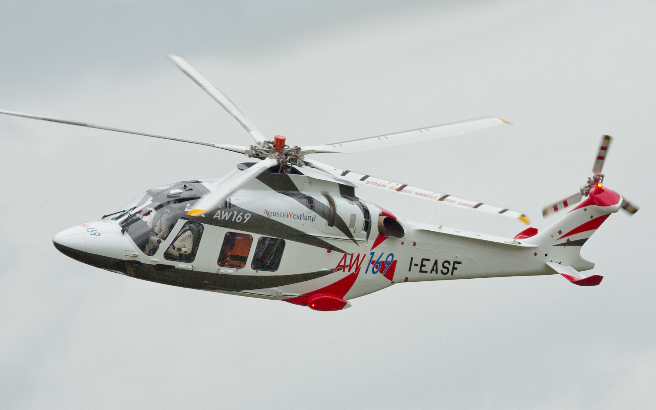 Agusta Westland AW 169 in flight at the 2012 Farnborough Air Show